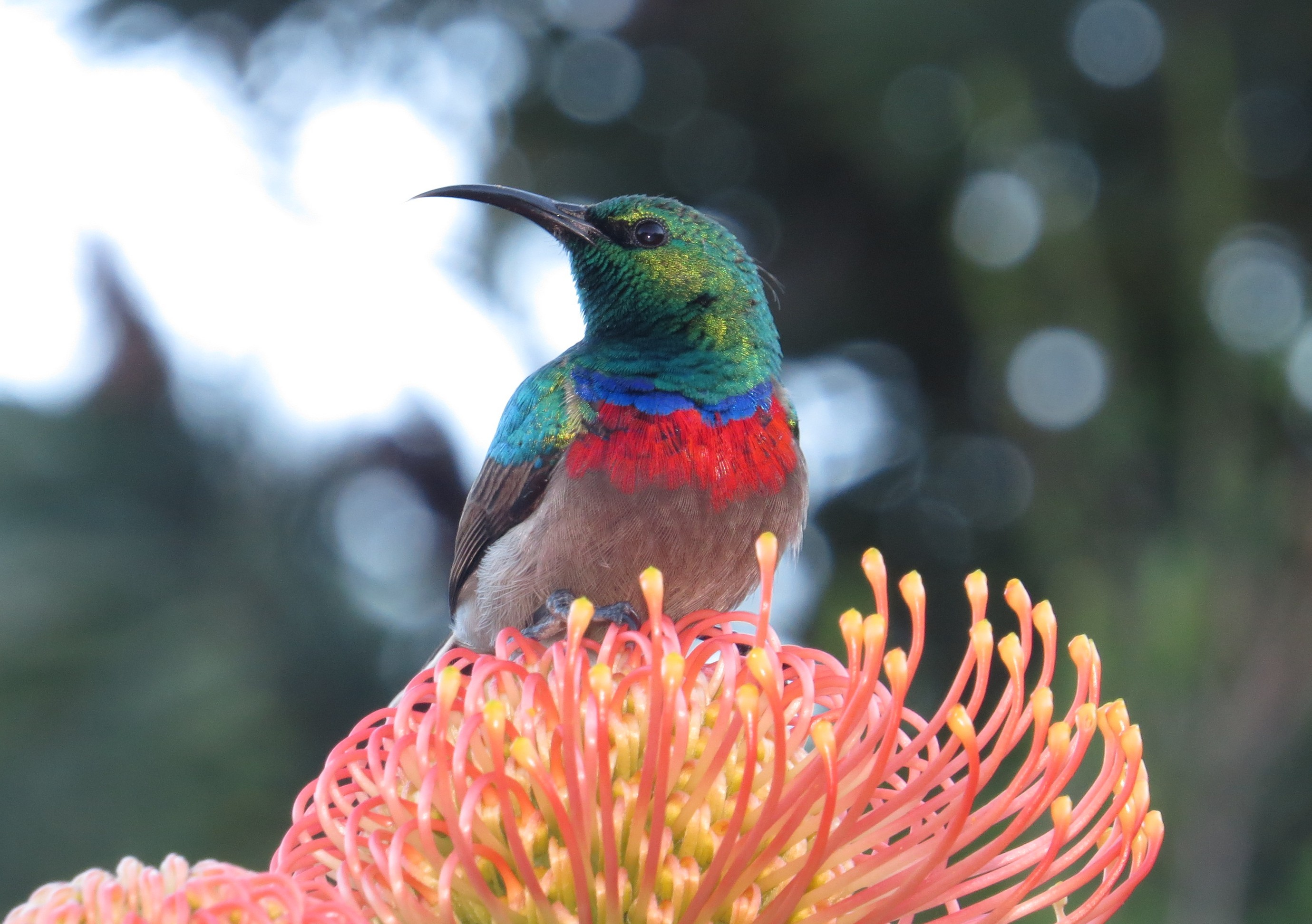 Southern Double-collared Sunbird, Kirstenbosch, South Africa.